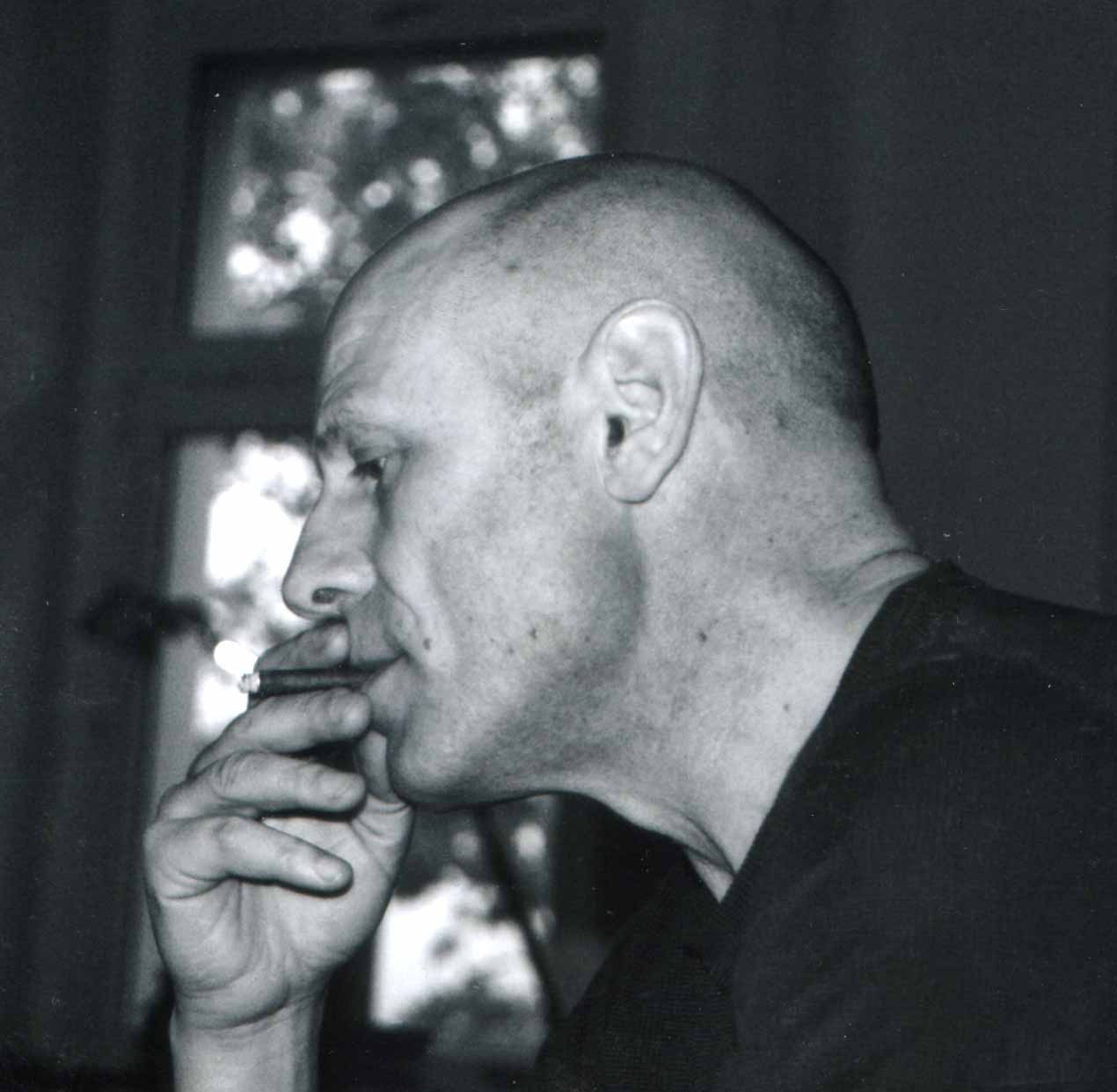 Antón Lamazares en Berlín, 2005